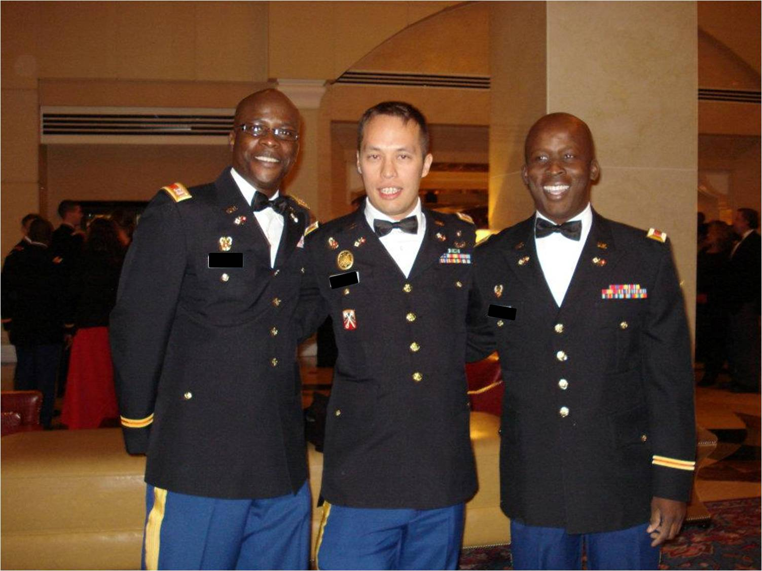 ARCYBER Soldiers at the Cyber Ball.